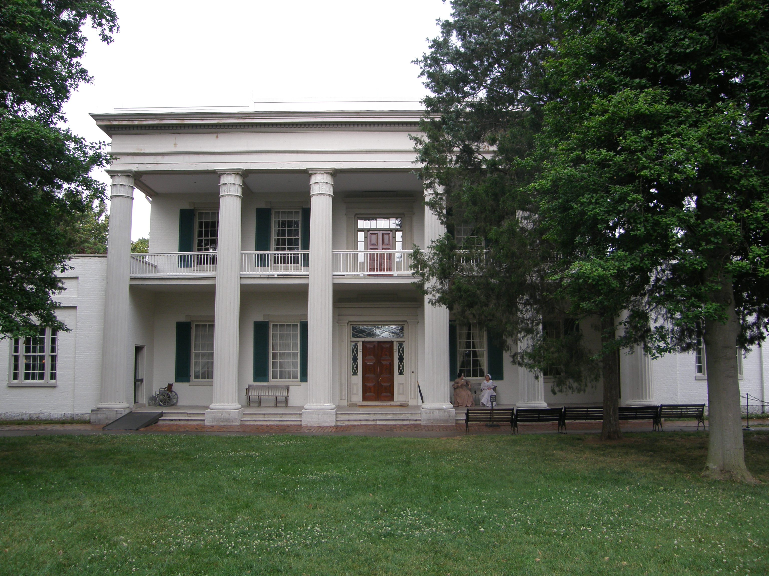 Andrew Jackson's Home, The Hermitage, near Nashville, Tennessee.